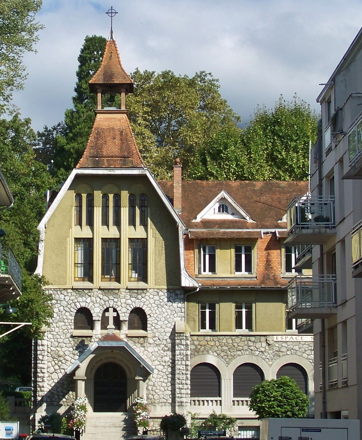 Protestant temple of Aix-les-Bains in Savoie, France.